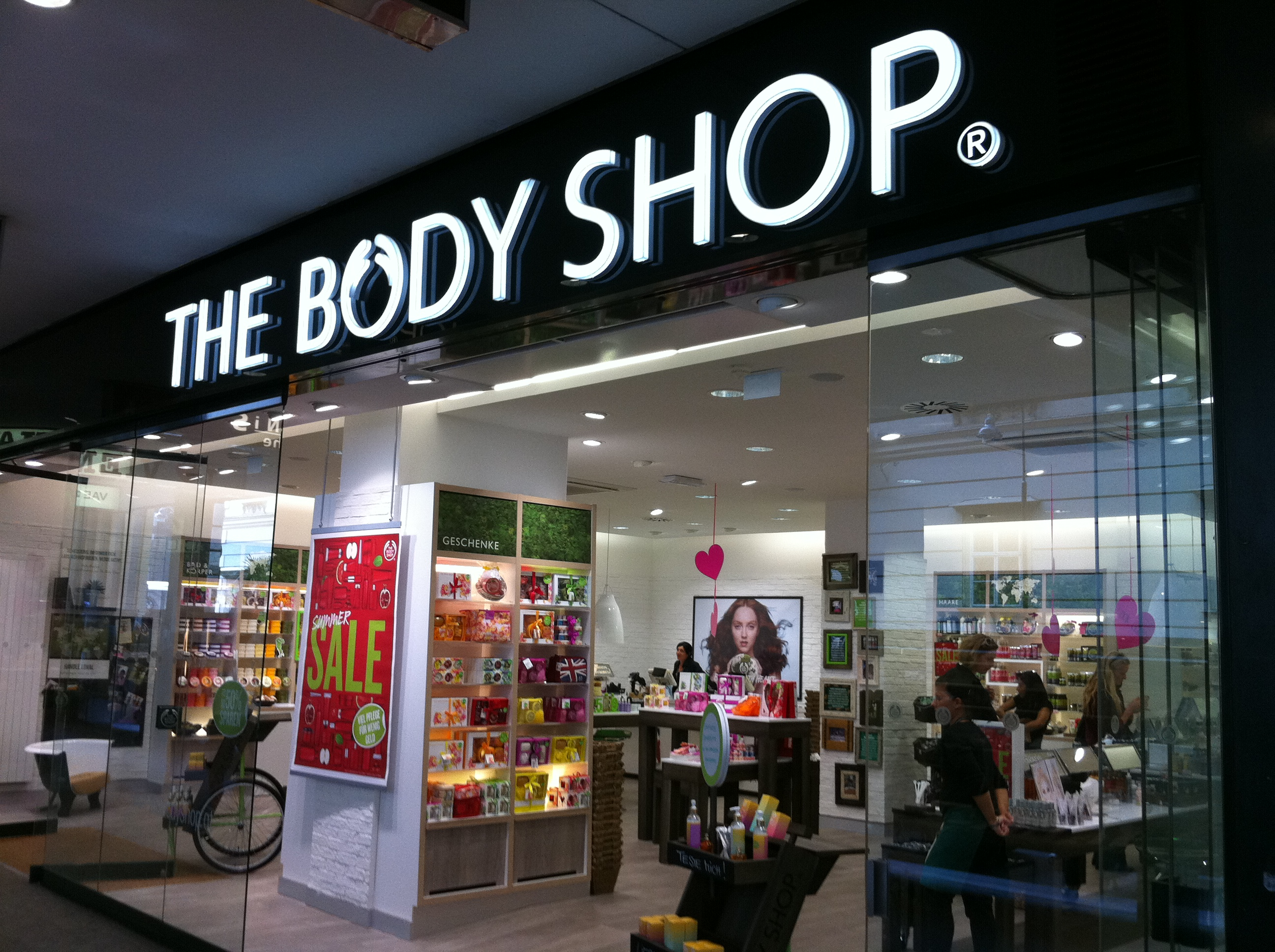 The Body Shop in Stephansplatz, Vienna, 26 June 2012.